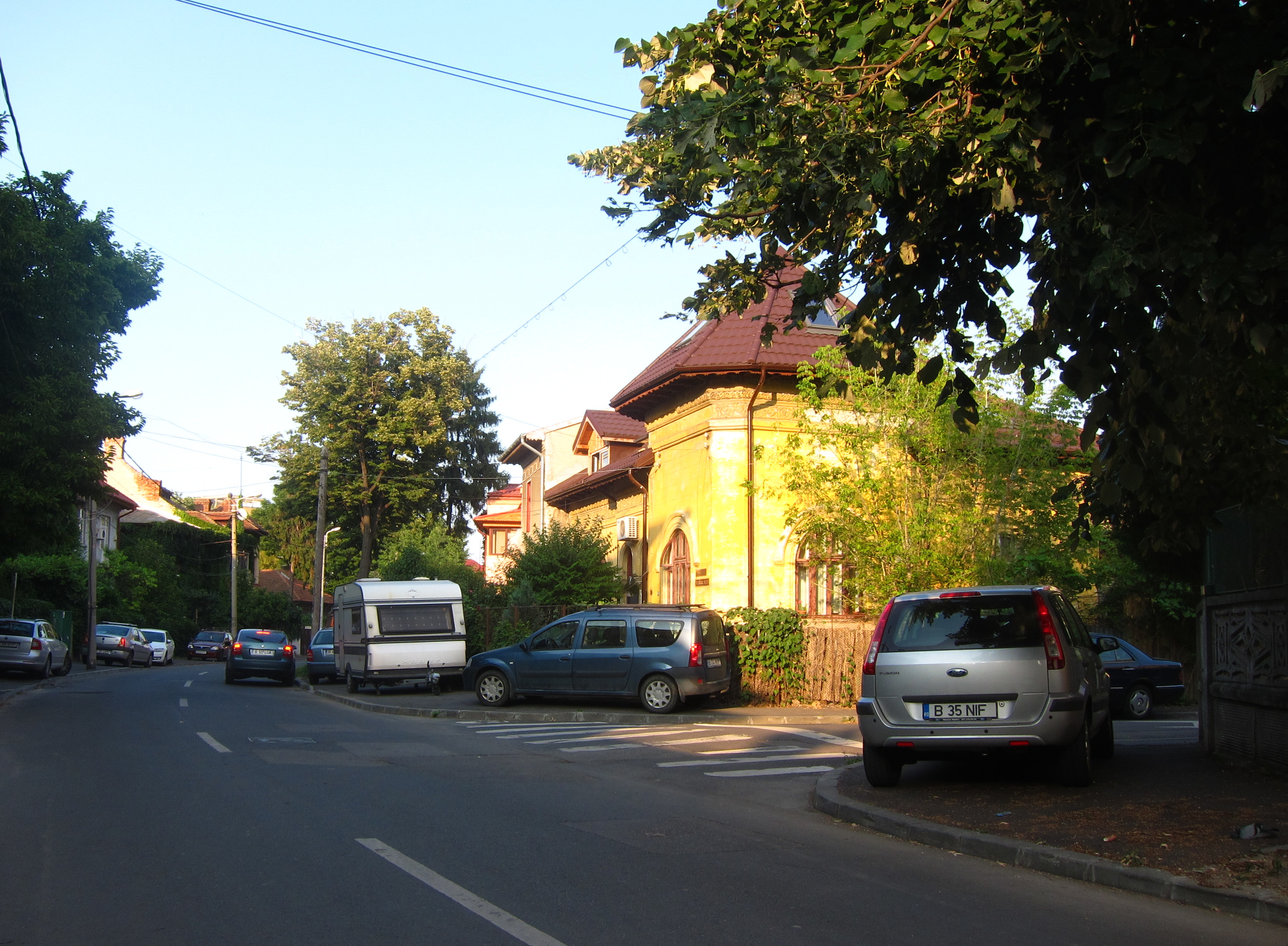 Obor station lots in Bucharest, RomaniaRomână: Parcelarea Gara Obor (fostă Ferdinand) din București, România